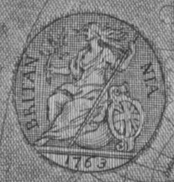 Britannia emblem extracted from William Hogarth's Plate 8: In The Madhouse engraving from A Rake's Progress, after he retouched it in 1763.